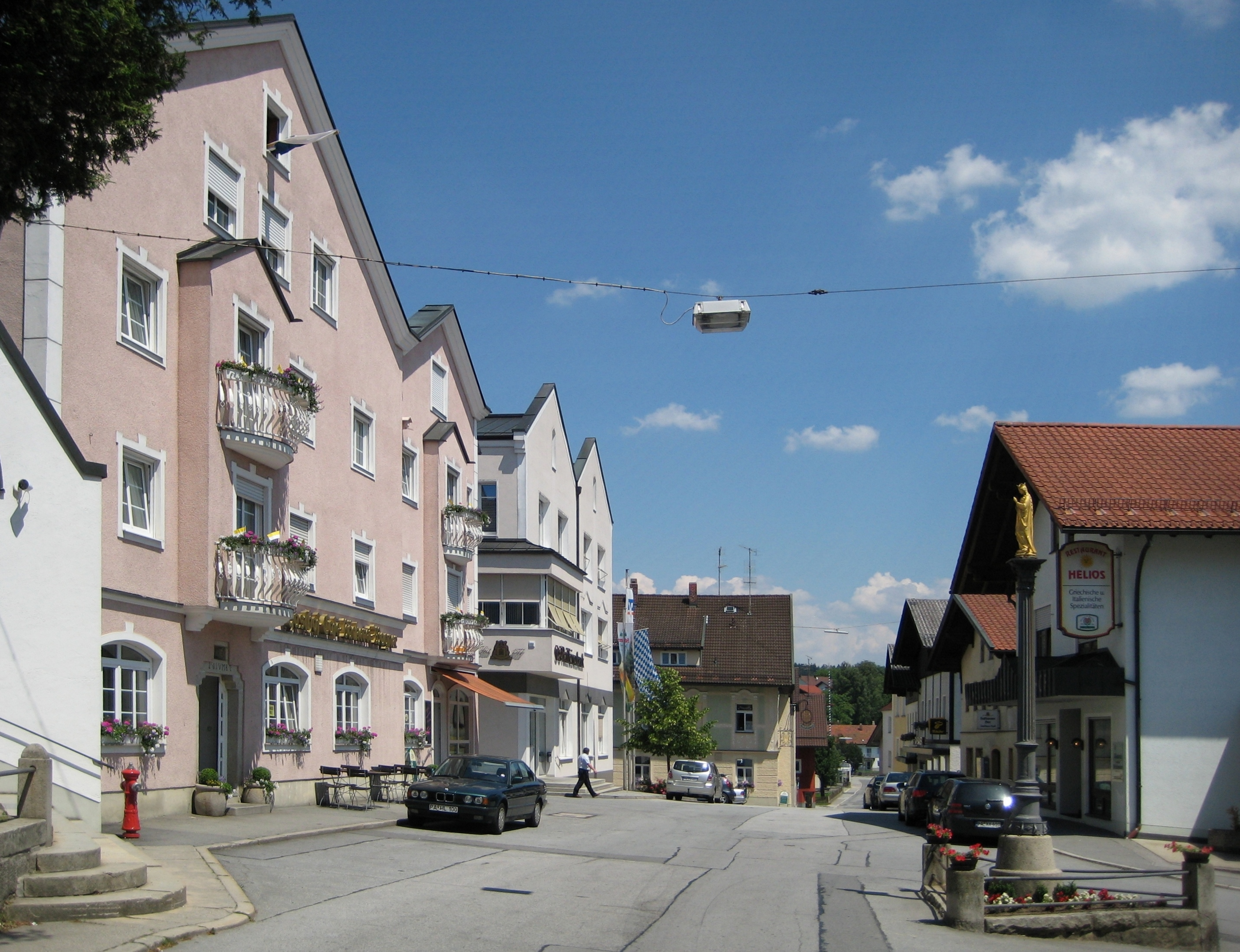 Marketplace of Hutthurm